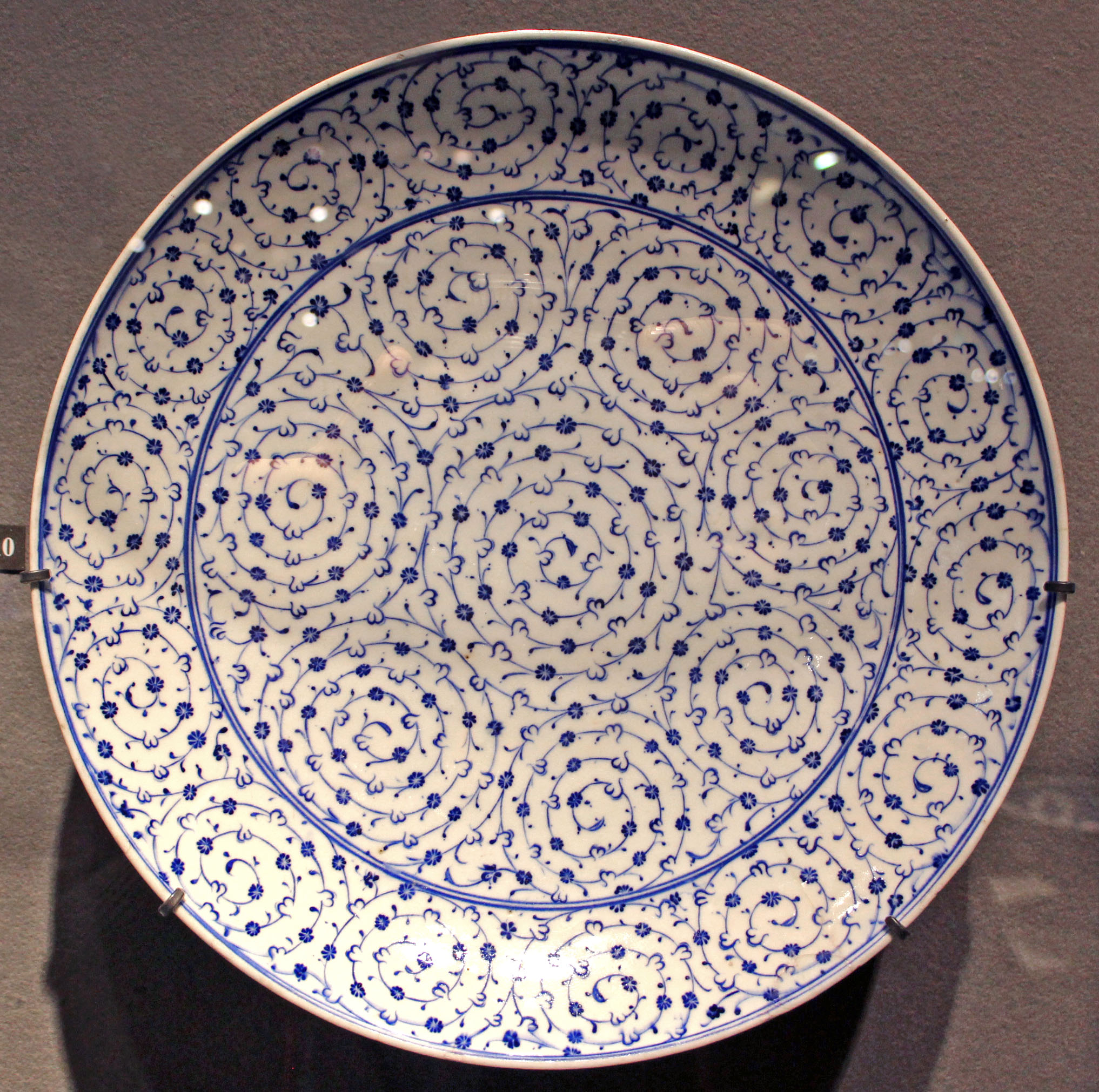 Dish with spiral motifs